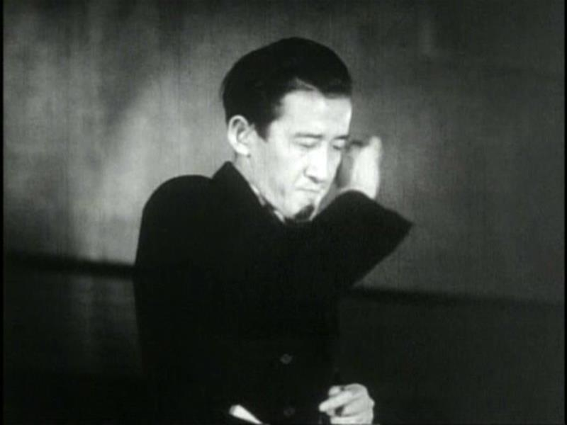 Hisatada Otaka (Conductor from Japan)